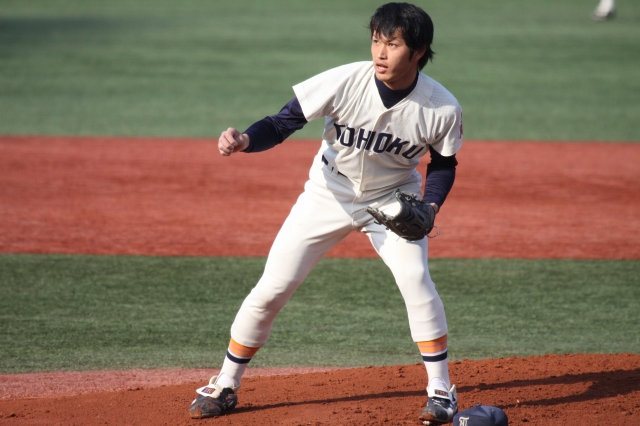 Yuji Nakane, pitcher of the Tohoku Fukushi University Baseball Club.